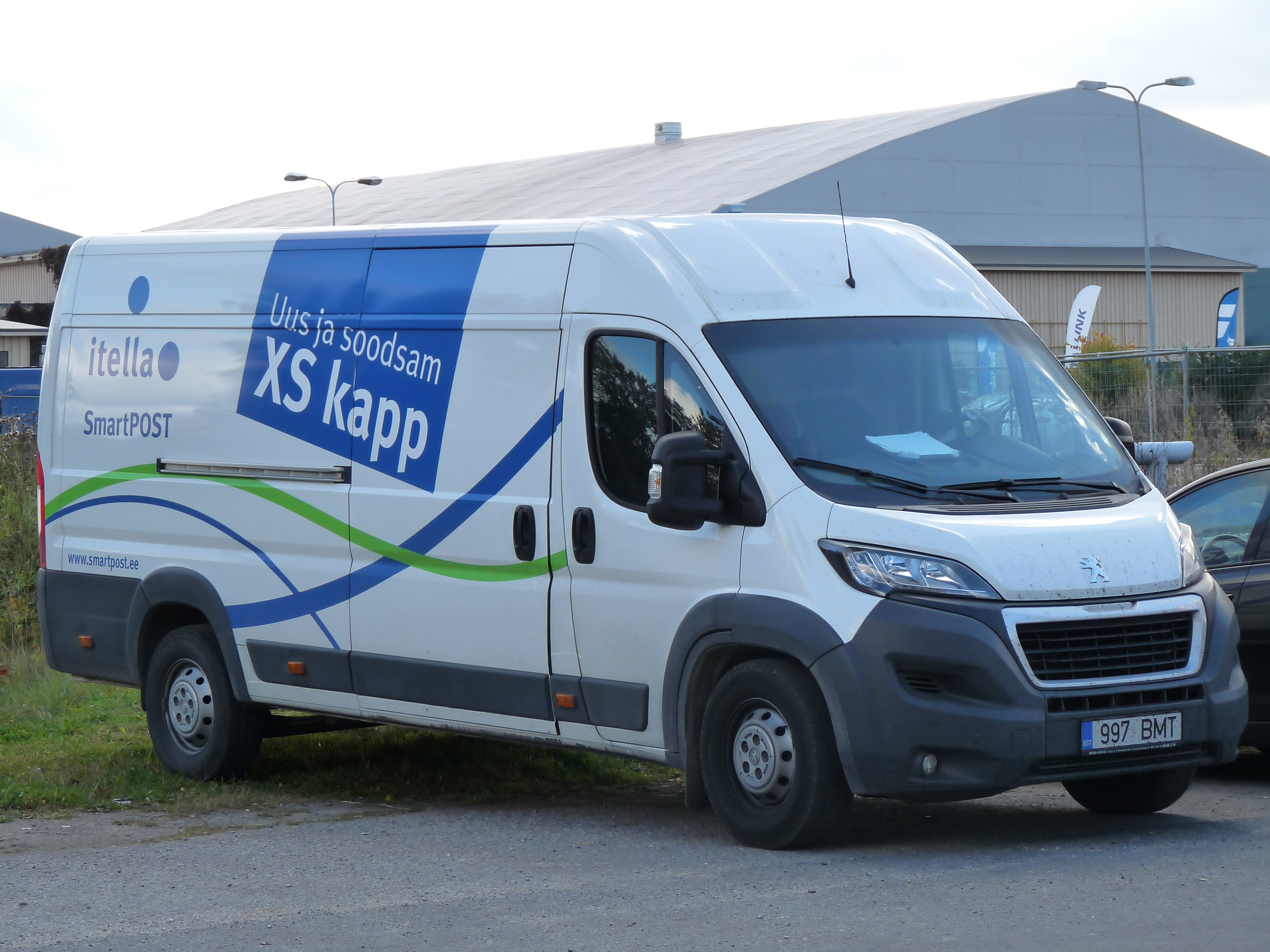 Peugeot vehicle in Tallinn, Estonia